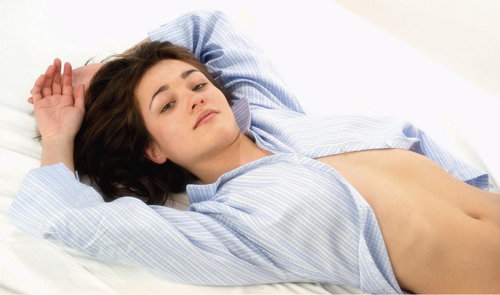 Slim girl in pyjamas stretching and showing off her belly and ribs.